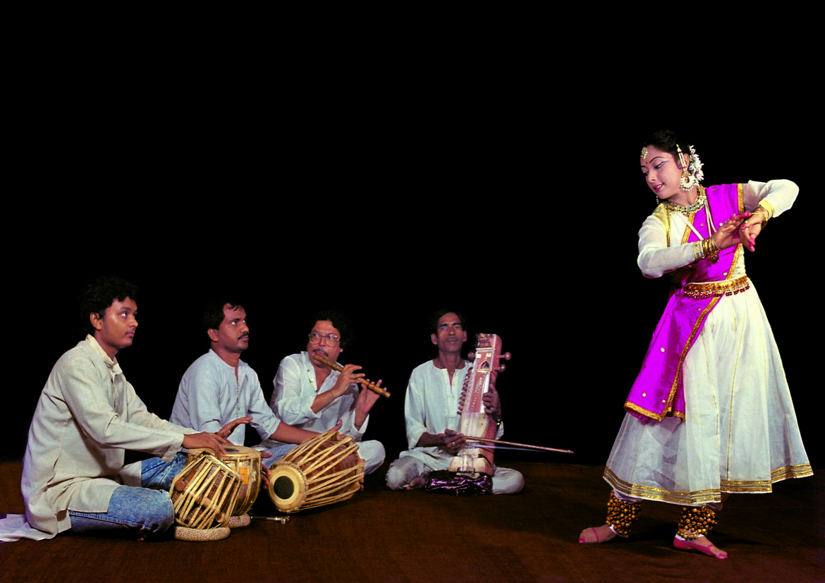 This picture depicts the dancer wearing the Mughal costume which comprises the angarkha, the churidar-pyjama and the odhni. The dancer is accompanied by the musicians - the tabla player, the pakhawaj player, the flutist and the sarangi player.